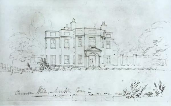 Drawing of Cannon Hill House London SW20. Dated to 1893. Anonymous